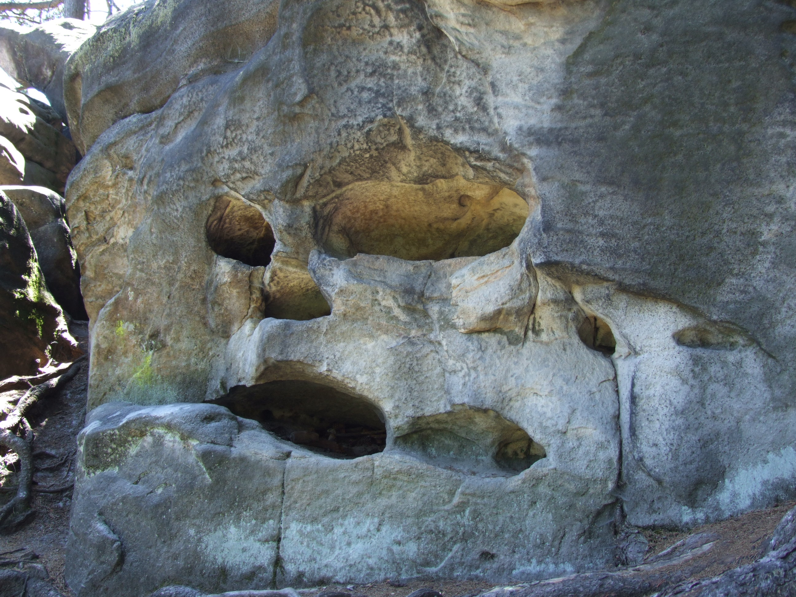 Ostaš - sandstone formation in the Czech Republic